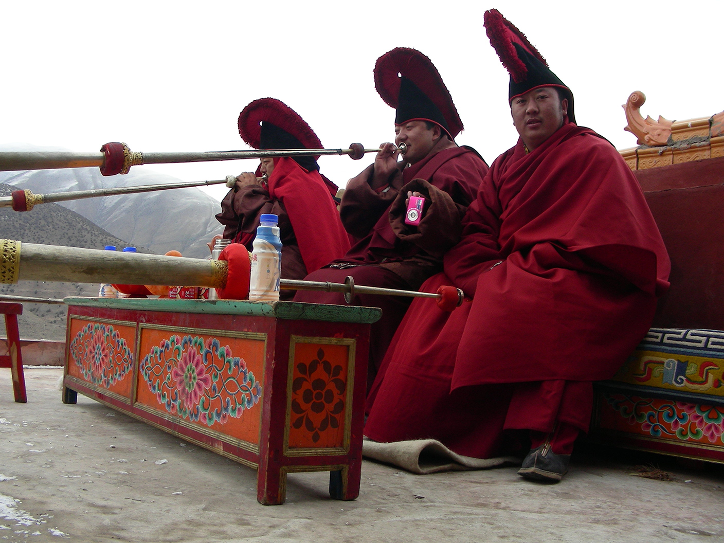 Three monks playing Zangs Dungs (Tibetan trumpets) at Domthok Monastery.